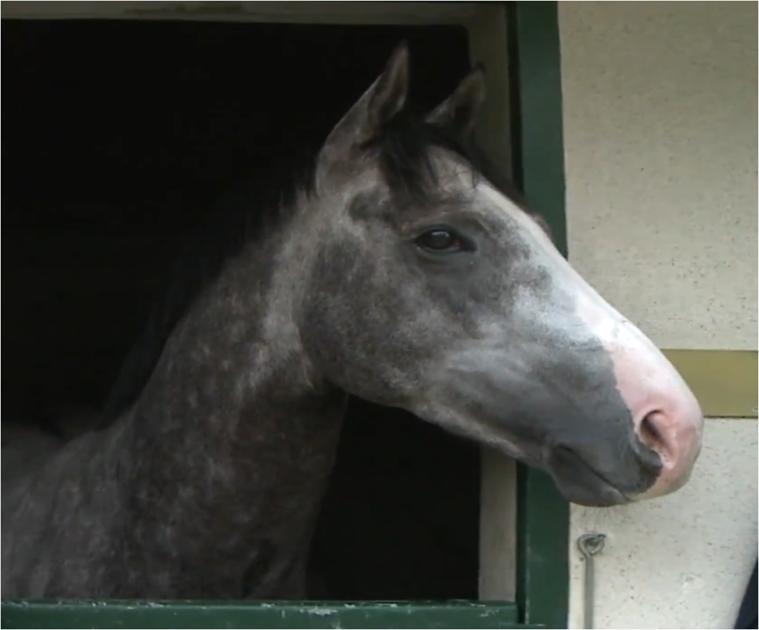 Racehorse that won 2014 Prix du Jockey Club